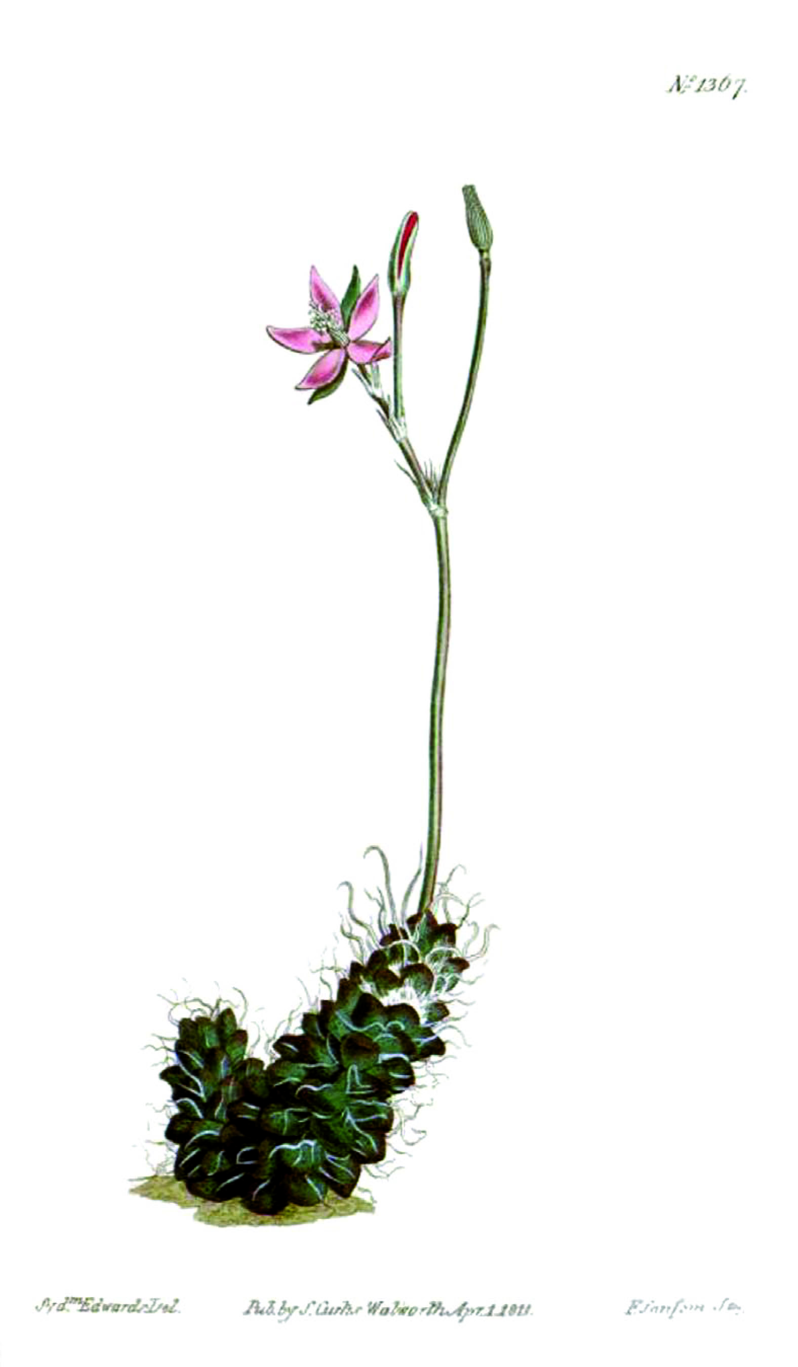 Anacampseros filamentosa (Thready Anacampseros)